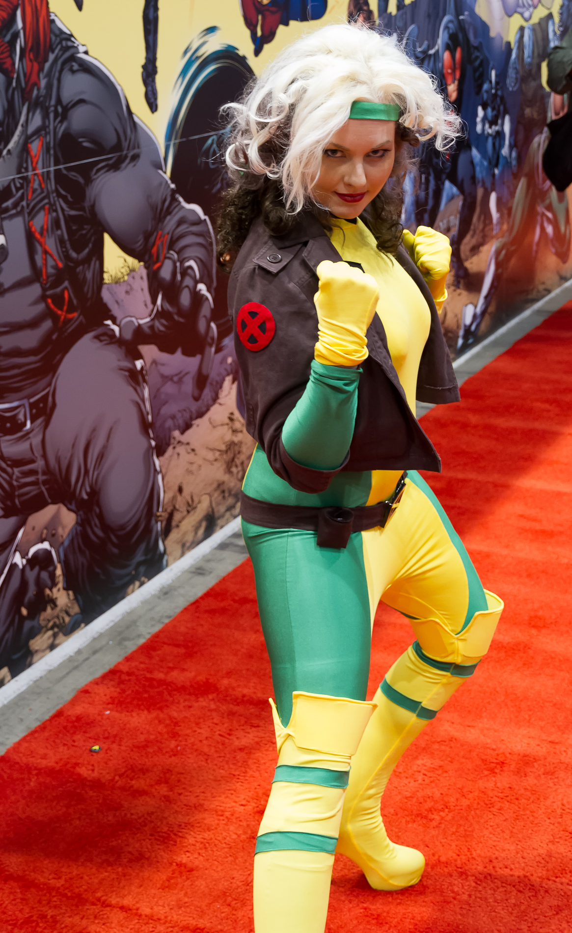 Cosplay at the 2013 Chicago Comic & Entertainment Expo (C2E2).